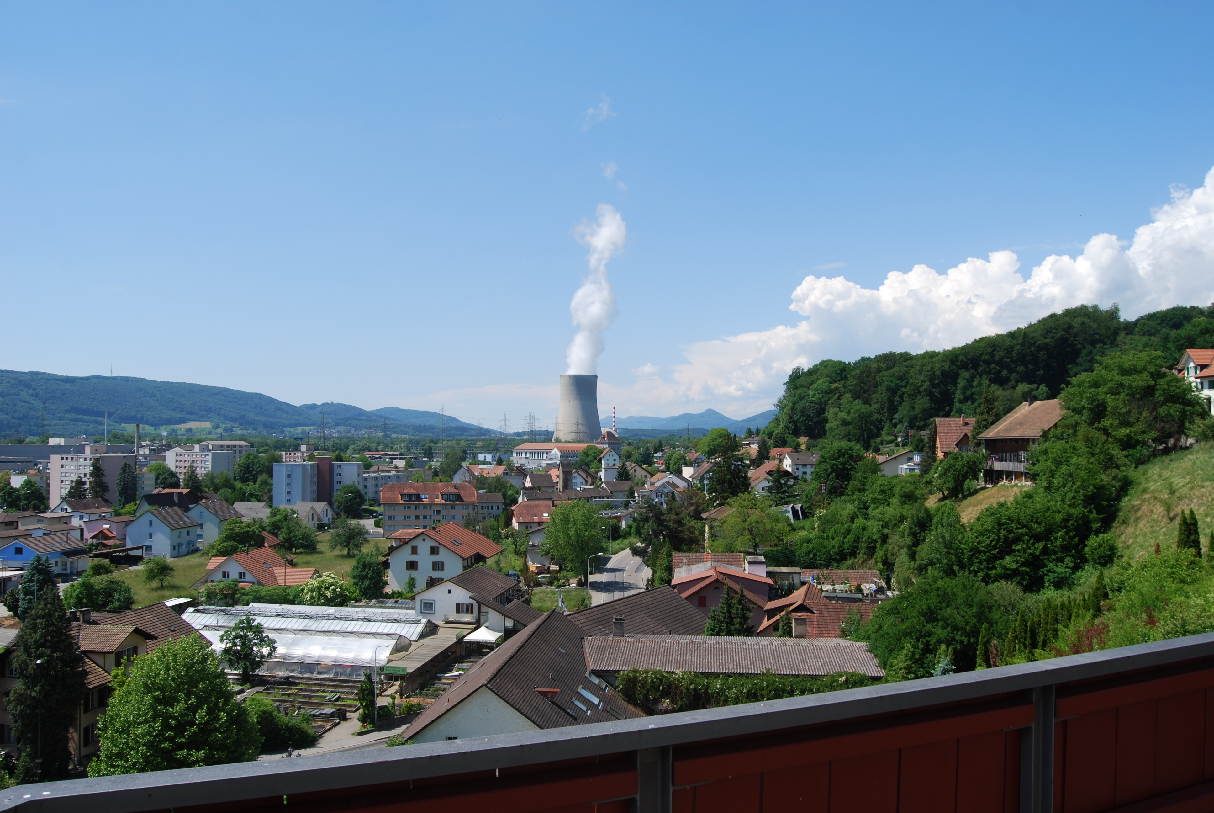 Niedergösgen - view from the catholic church to the village and the Gösgen nuclear power plant, canton of Solothurn, Switzerland